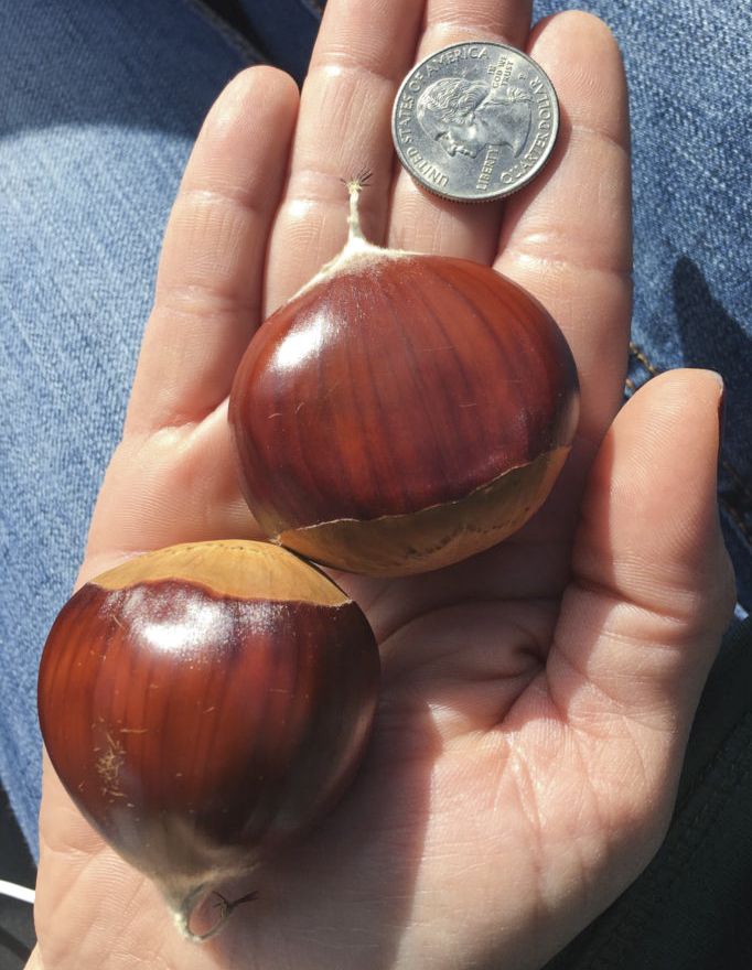 Castaña gigante de Betizac, Sur de Francia